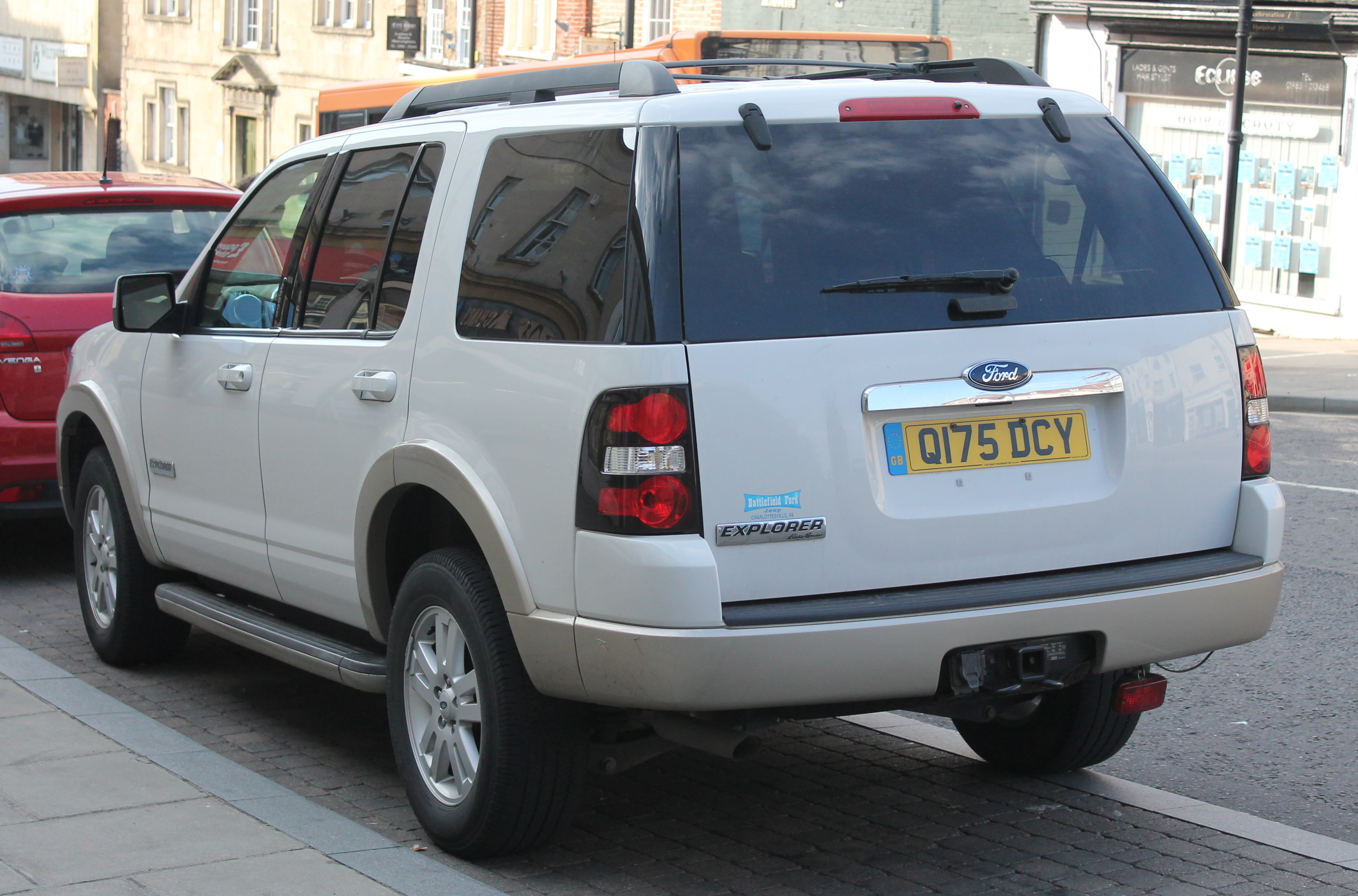 Slightly obscure one this, for several reasons. One, obviously you don't see these much in the UK, but also this one's been Q plated, and on the DVLA says it's year of manufacture was 2013- clearly wrong as the successor to this model was released in 2011. Note it's also unusual in the fact it's had standard EU size plates made for it, which clearly don't fit on the front! I can see these were made in the same town I spotted and I doubt they provide square plates! It was imported into the UK in July 2013- it's a bit odd it's been Q plated- I imagine there's a lack of documentation for this vehicle. It's had a few modifications like the rear fog light, but retains its US main lights, albeit with stickers on the front. It's equipped with the 4.0 litre V6 engine. I quite like the look of these, and there can't be many around in the UK. I like the US dealer stickers still in place- do most cars over there have them? It tells me this car was once supplied by Battlefield Ford and Jeep in Charlotesville, Virginia. In case anyone's interested, 2 US presidents, Jefferson (no.3) and Monroe (no.5) lived there. Registration number: Q175 DCY ✔ Taxed Expires: 01 July 2015 ✔ MOT Expires: 27 June 2015 Vehicle make :FORD Date of first registration :17 July 2013 Year of manufacture :2013 Cylinder capacity (cc) :4000cc CO₂Emissions :Not available Fuel type :PETROL Export marker :No Vehicle status :Tax not due Vehicle colour :WHITE